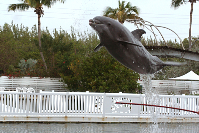 Bottlenose Dolphin with jumping at Theater of the Sea, Florida, USA.